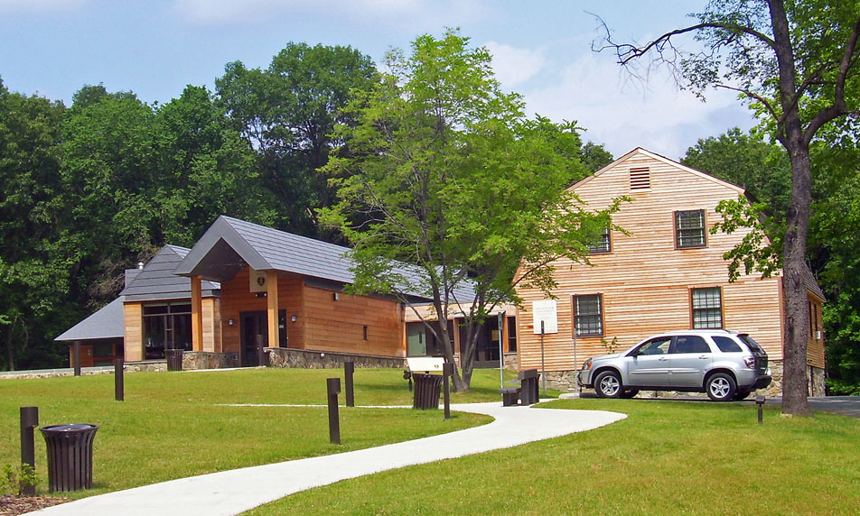 Photographed by Daniel Case 2007-06-09.